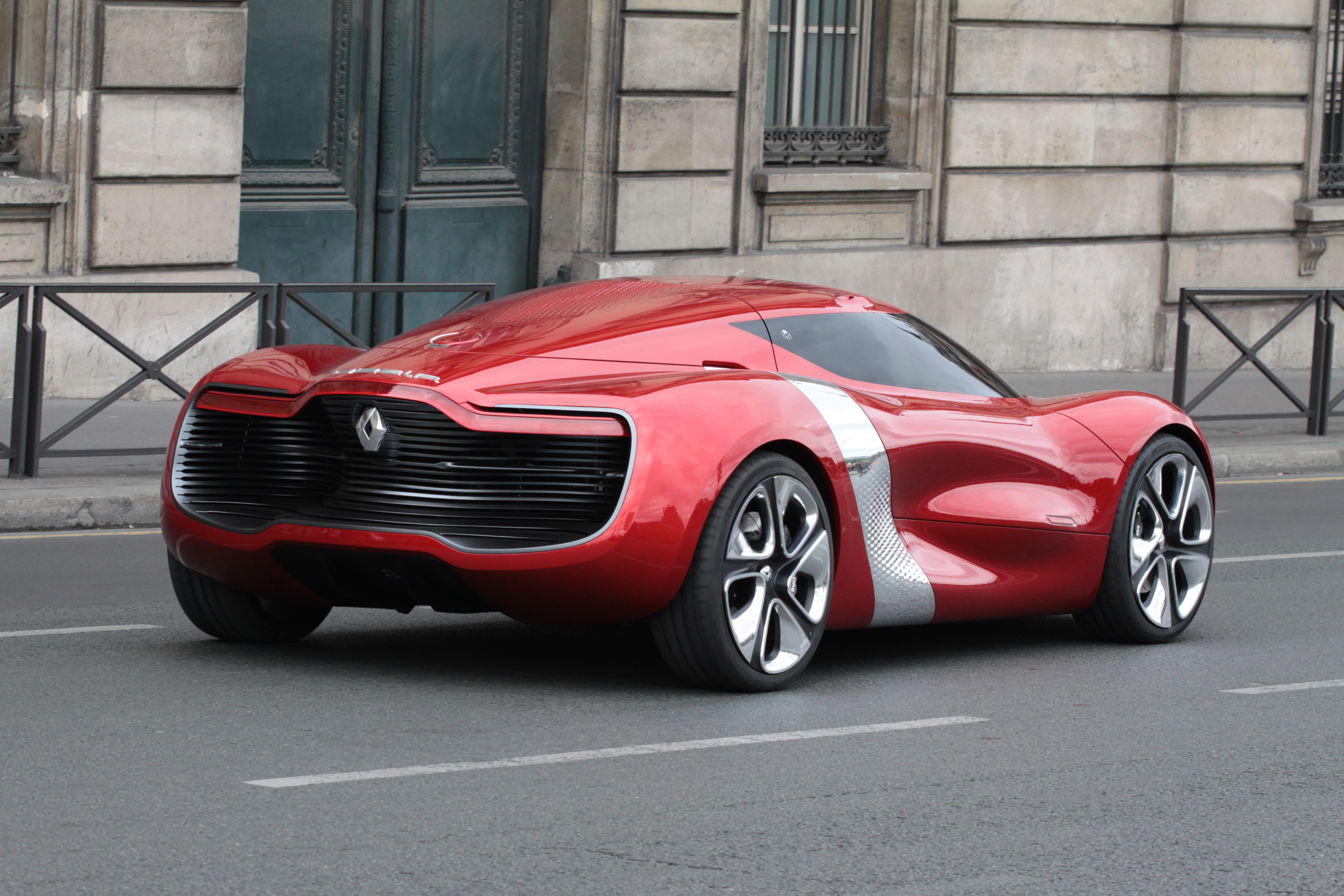 Another shot of the Renault DeZir in Paris, France.